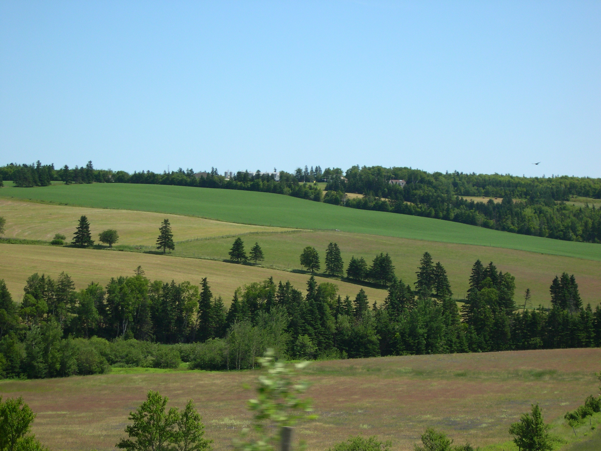 Prince Edward Island, farmland